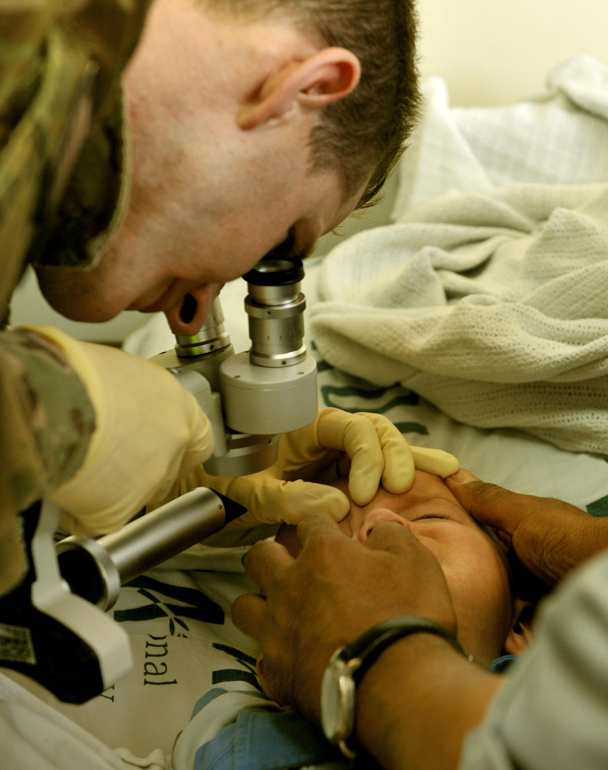 Maj. Marcus Neuffer, 455th Expeditionary Medical Group ophthalmologist, examines and compares the eyes of a 12-month-old Afghan patient in the Korean Humanitarian Hospital on Bagram Air Field, Afghanistan, July 6, 2013. He recently completed a surgery on her right eye to correct a cataract. The girl had been diagnosed with cataracts in both eyes in May. A cataract is an eye disease in which the clear lens of the eye becomes cloudy and opaque, causing a decrease in vision. The lens is replaced in surgery, without treatment a cataract can result in a complete loss of vision. (U.S. Air Force photo/ Staff Sgt. Stephenie Wade)